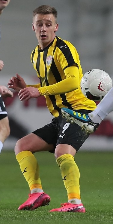 Maksim Martusevich with FC Khimki in a Russian Cup quarterfinal game against FC Torpedo Moscow.